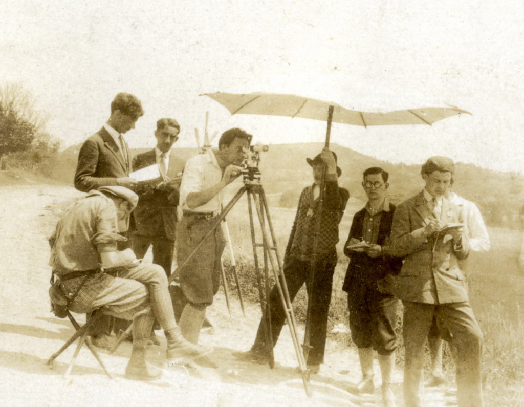 During practice